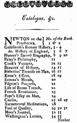 From: Catalogue of books, belonging to Wareham Social Library, 1798. To be returned the first Tuesday of April, July, October, & January.